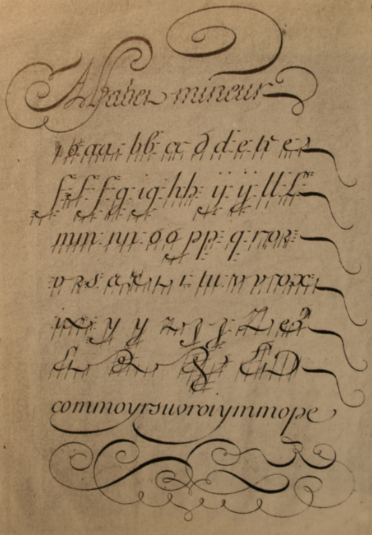 Louis Rossignol, Nouveau livre d'écriture, c. 1756.